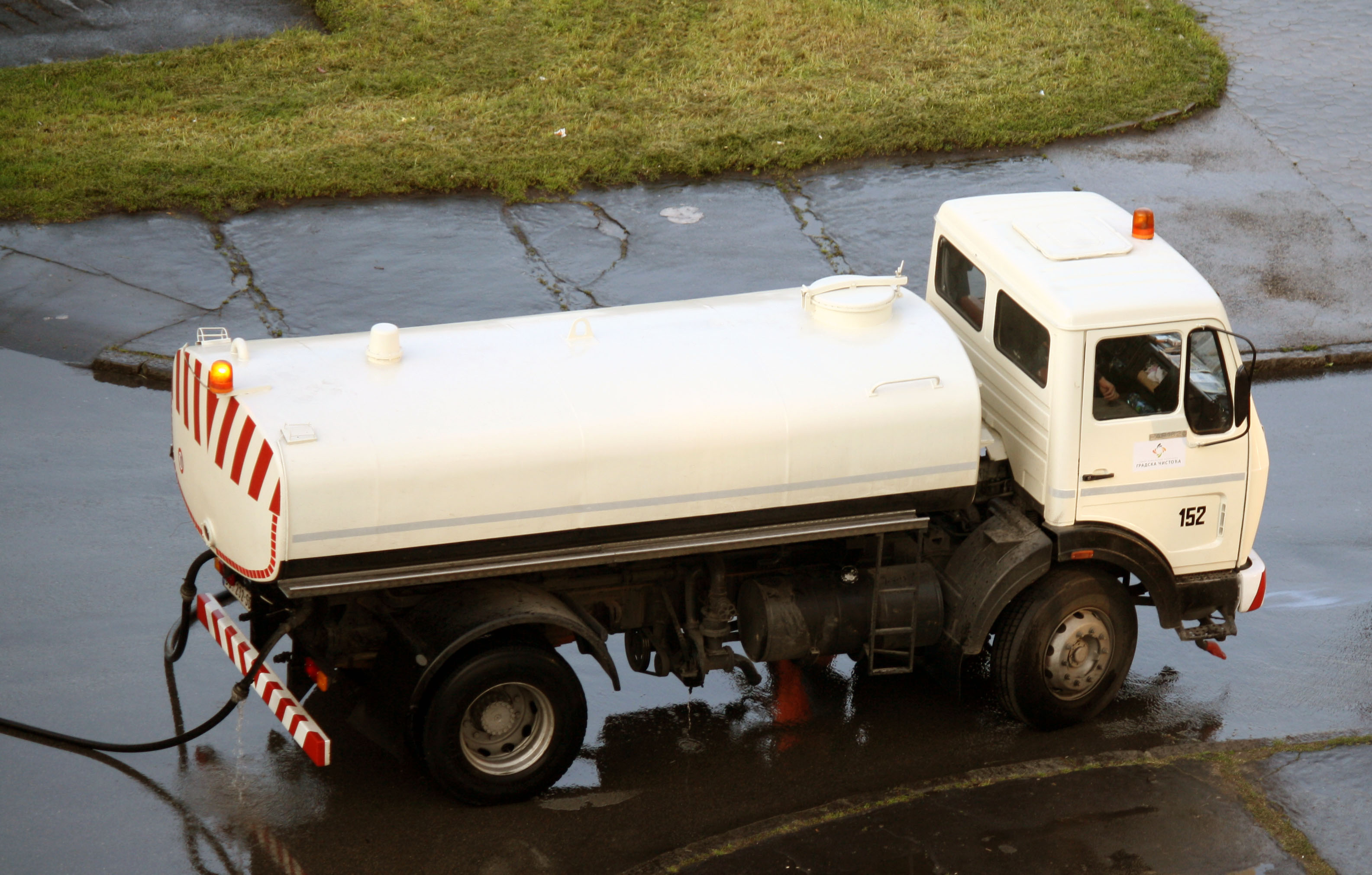 FAP 1620 cleaning truck of Belgrade city cleanliness.